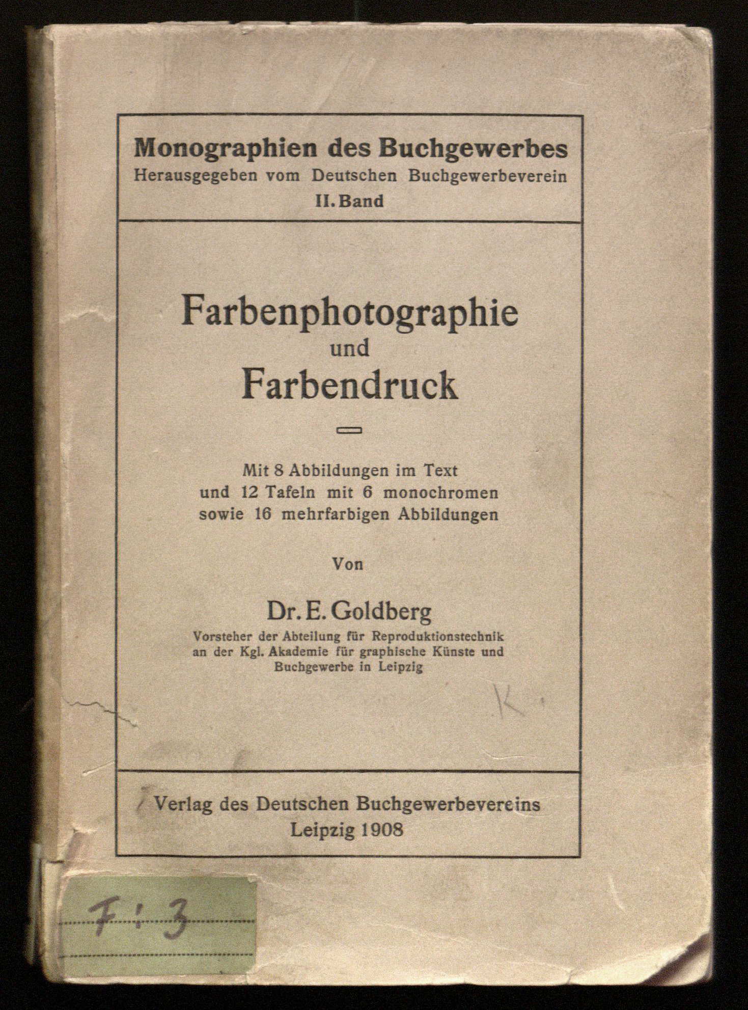 Frontpage of the publication: "Farbendruck und Farbenphotographie". Published 1908 in Leipzig.